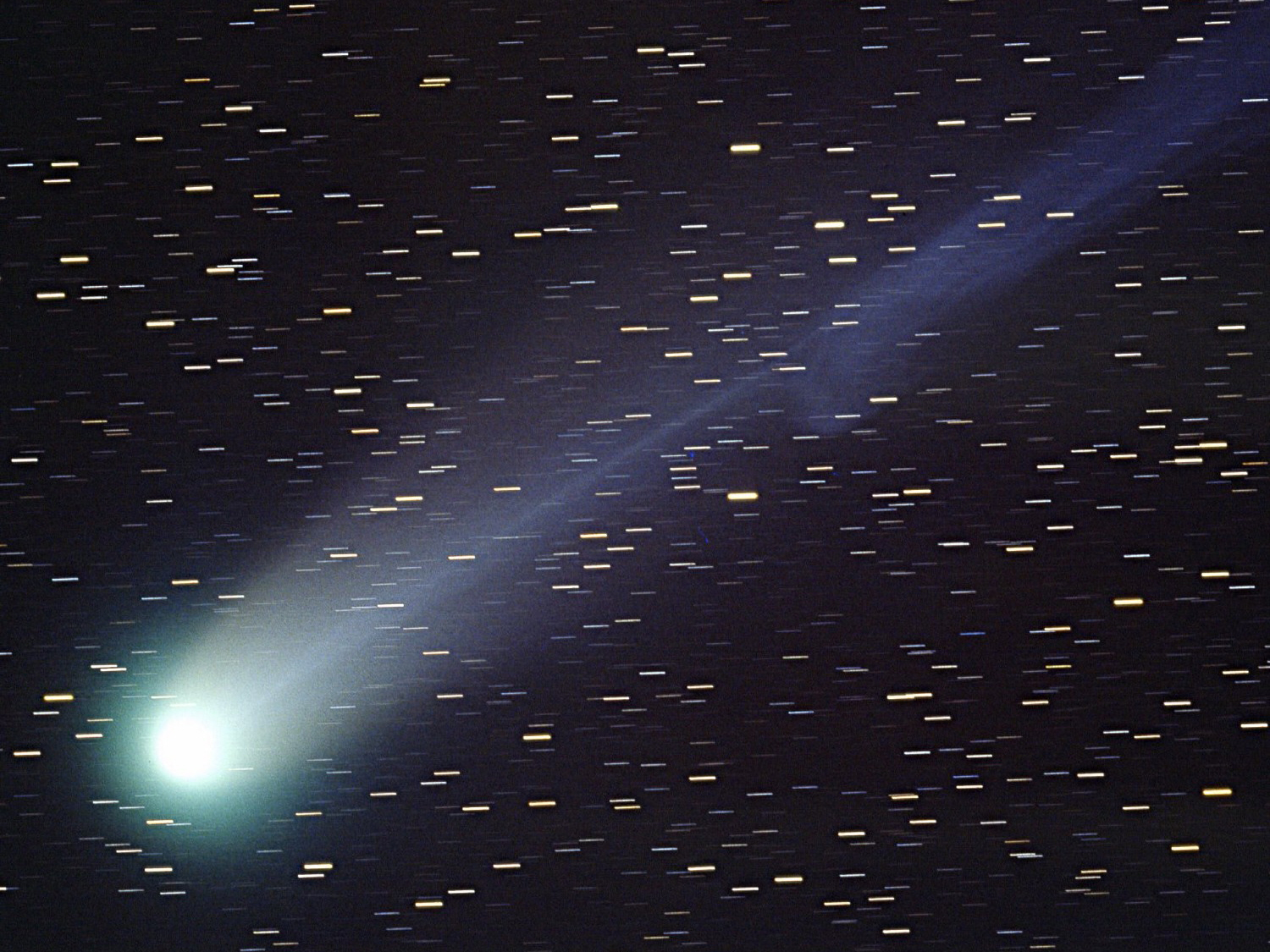 Image of comet C/1996 B2 (Hyakutake), taken on 1996 March 25, with a 225mm f/2.0 Schmidt Camera (focal length 450mm) on Kodak Panther 400 color slide film. Exposure 0:56 to 1:06 UT (10 minutes). The field shown is about 6.5°x4.8°. Note the prominent disconnection event in the comet's ion tail. Stars in the image appear trailed, as the camera tracked the comet during the exposure.